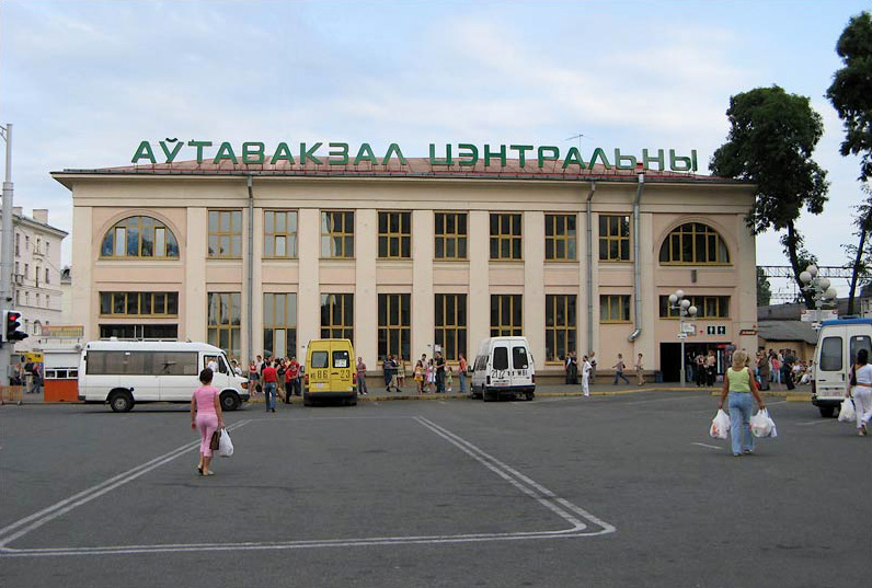 Centralny bus station before deconstruction in late 2007.